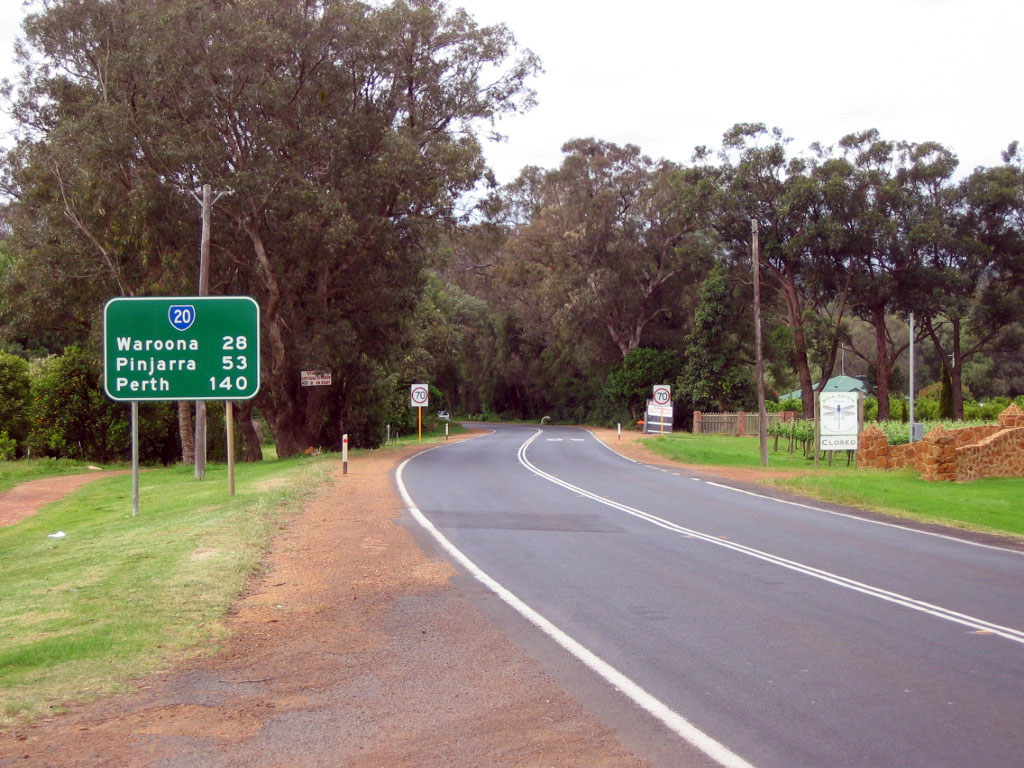 South Western Highway departing Harvey, Western Australia to the north.